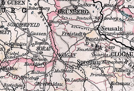 Detail from a map of Silesia.